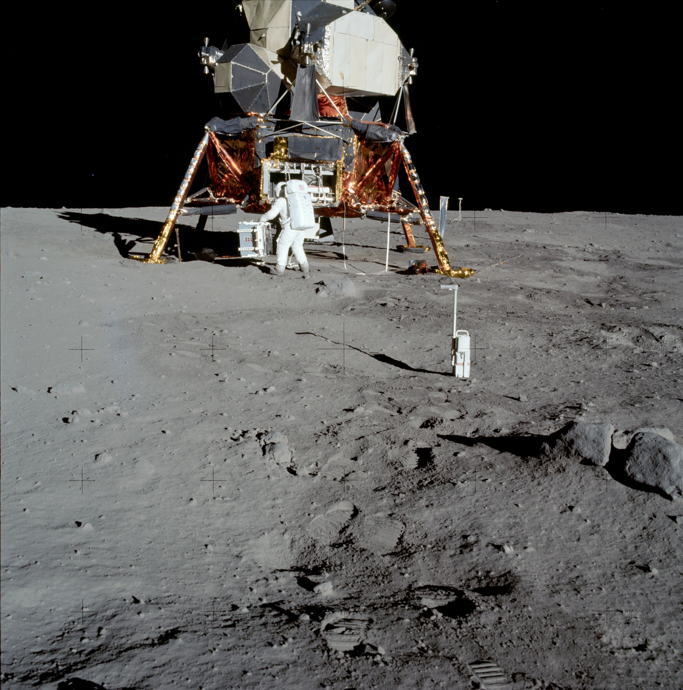 2004 scan of Apollo 11 photo AS11-40-5931 Original caption: Astronaut Edwin E. Aldrin Jr., lunar module pilot, prepares to deploy the Early Apollo Scientific Experiments Package (EASEP) on the surface of the moon during the Apollo 11 extravehicular activity. Astronaut Neil A. Armstrong, commander, took this photograph with a 70mm lunar surface camera. In the foreground is the Apollo 11 35mm stereo close-up camera.